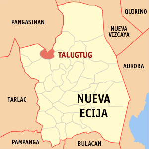 Map of Nueva Ecija showing the location of Talugtug